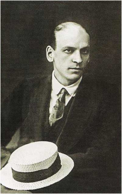 Vladimir Ivanovich Narbut (1888–1938) - Russian poet, member of the Acmeist group, brother of Ukrainian artist and graphic designer Georgy Narbut. Died in the Gulag.